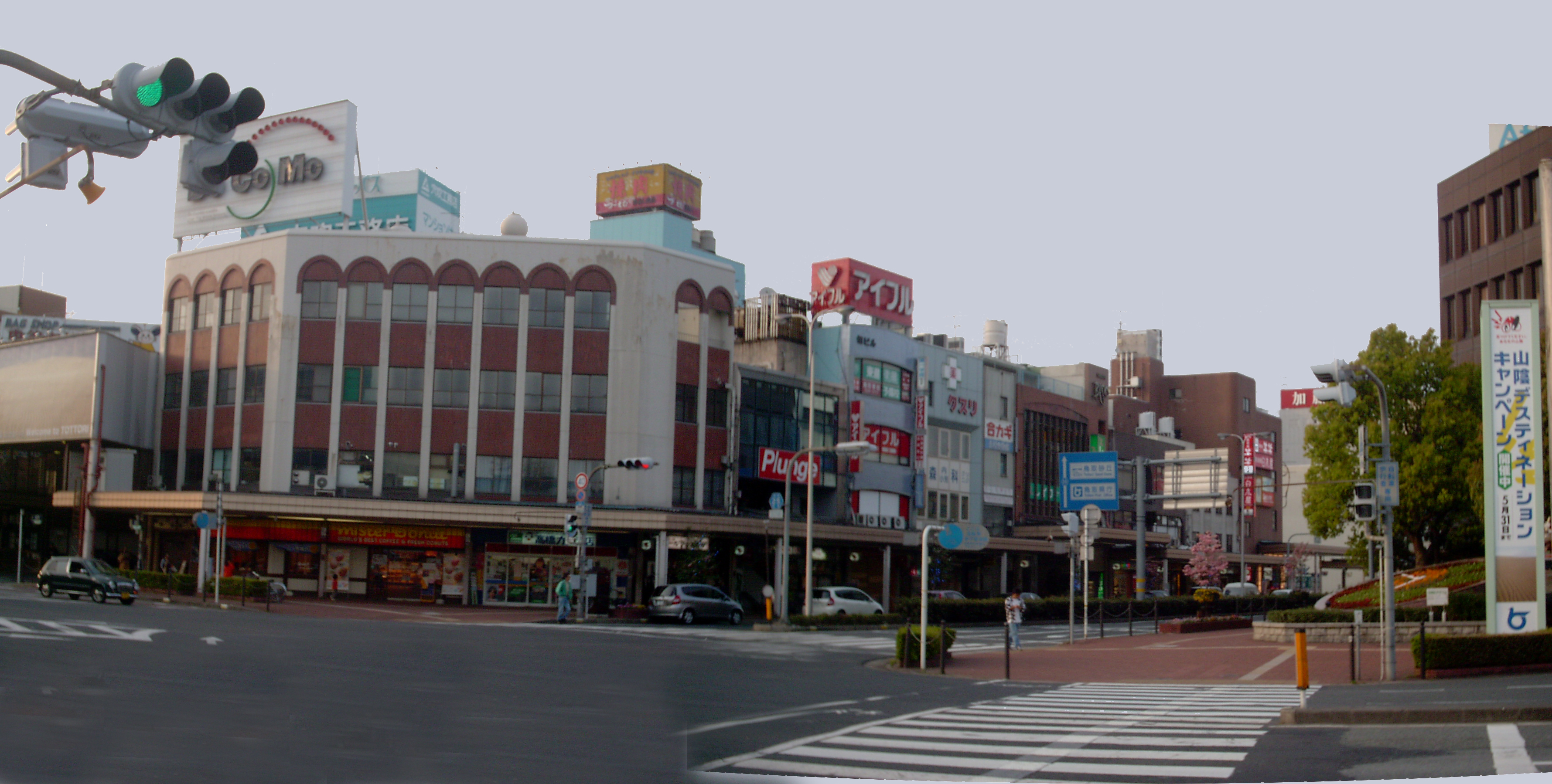 A view in front of Tottori's (train) Station.